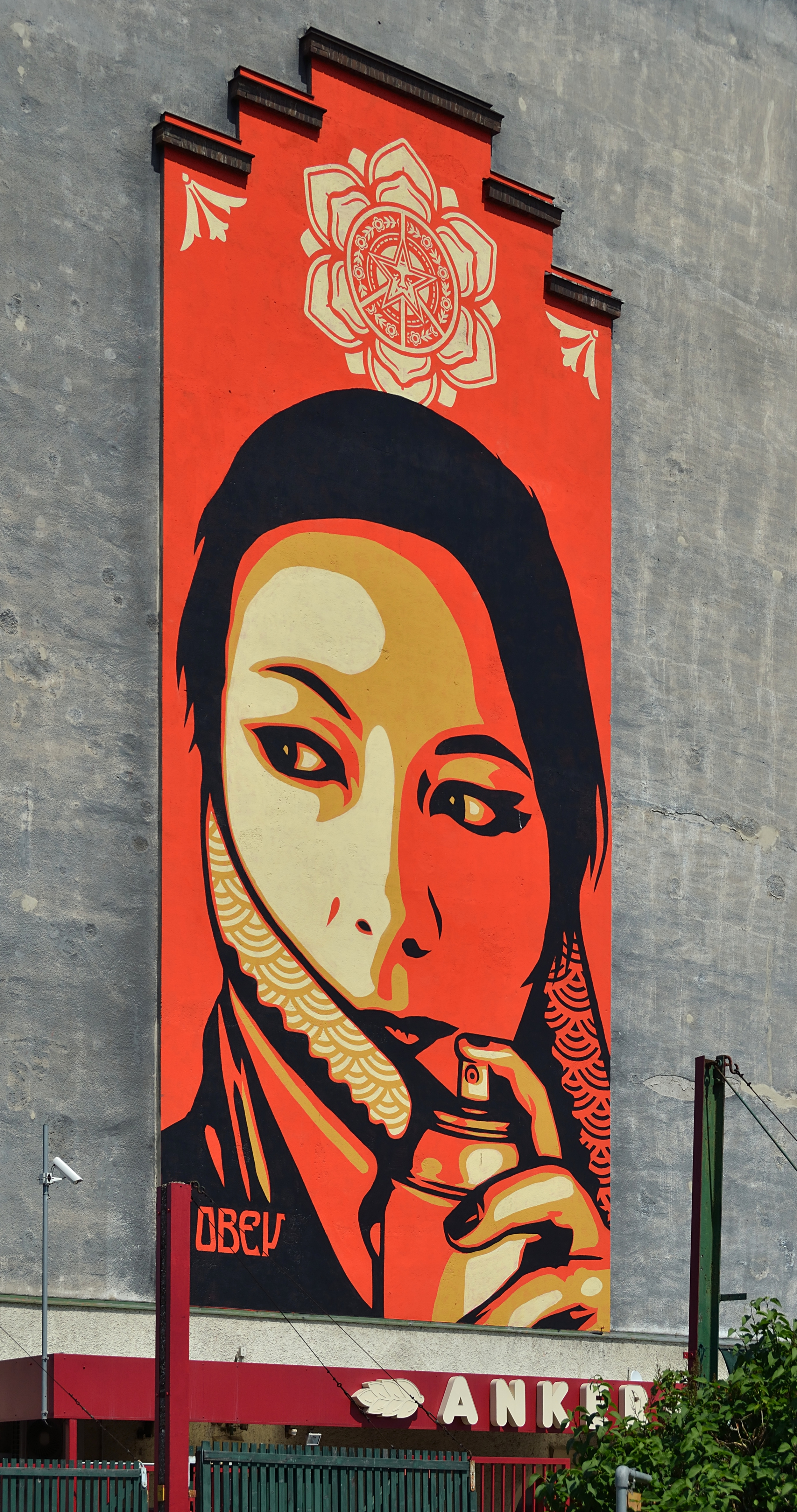 Ankerbrot factory, the biggest bakery in Vienna, at Favoriten. Mural by Shepard Fairey (May 2013).